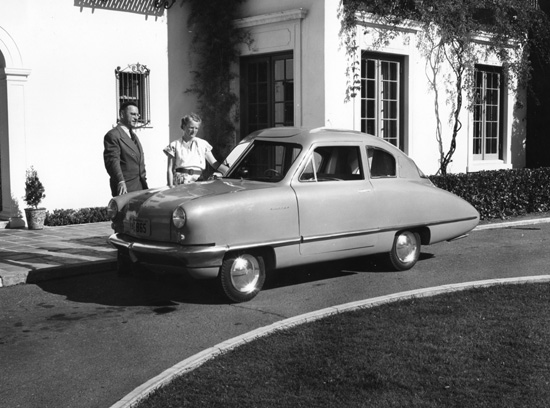 Convair Model 118 ConvAirCar